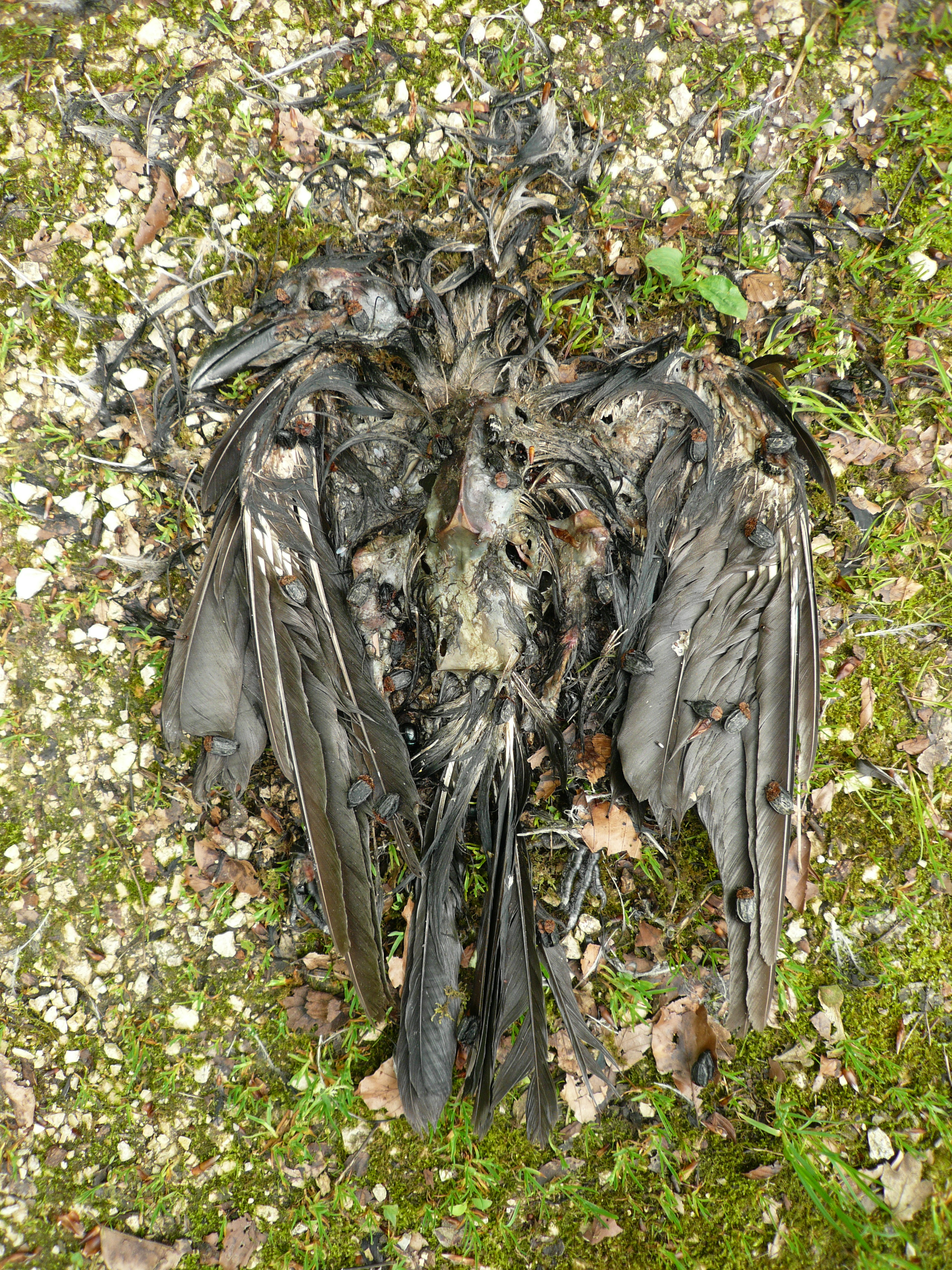 Corpse of craw